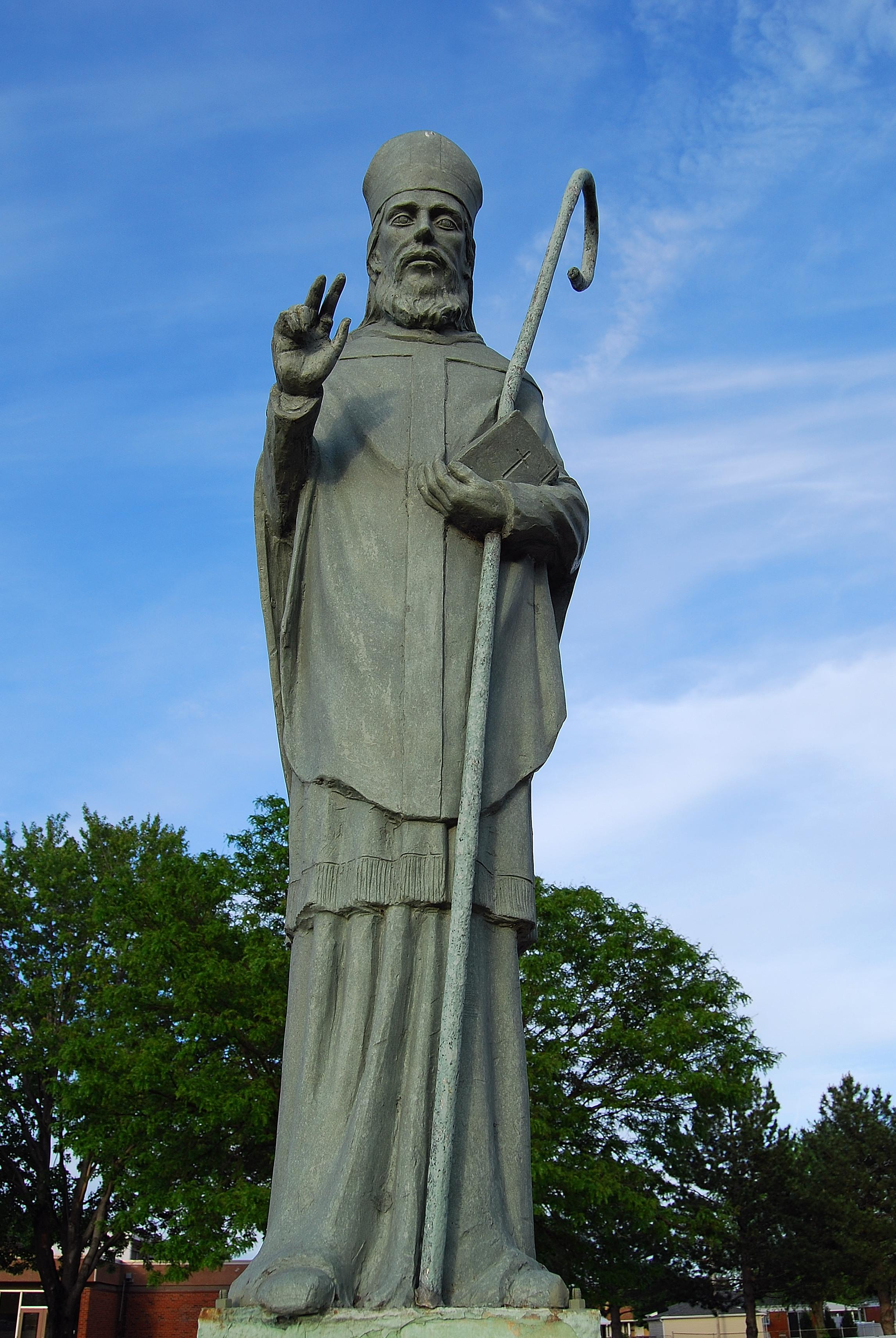 St Malachy. 14115 Fourteen Mile Road, Sterling Heights, MI.